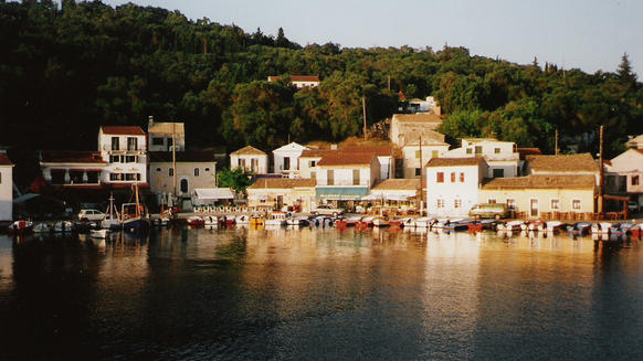 Paxi. Loggos Harbour, Paxi.